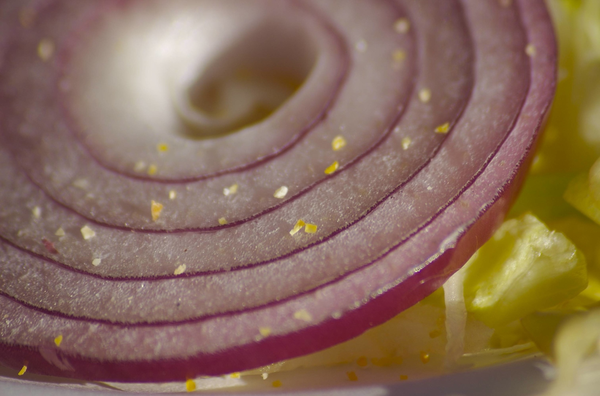 Onion and lettuce from a chicken sandwich I got at the Cirque bar and grill, in Snowmass Colorado.